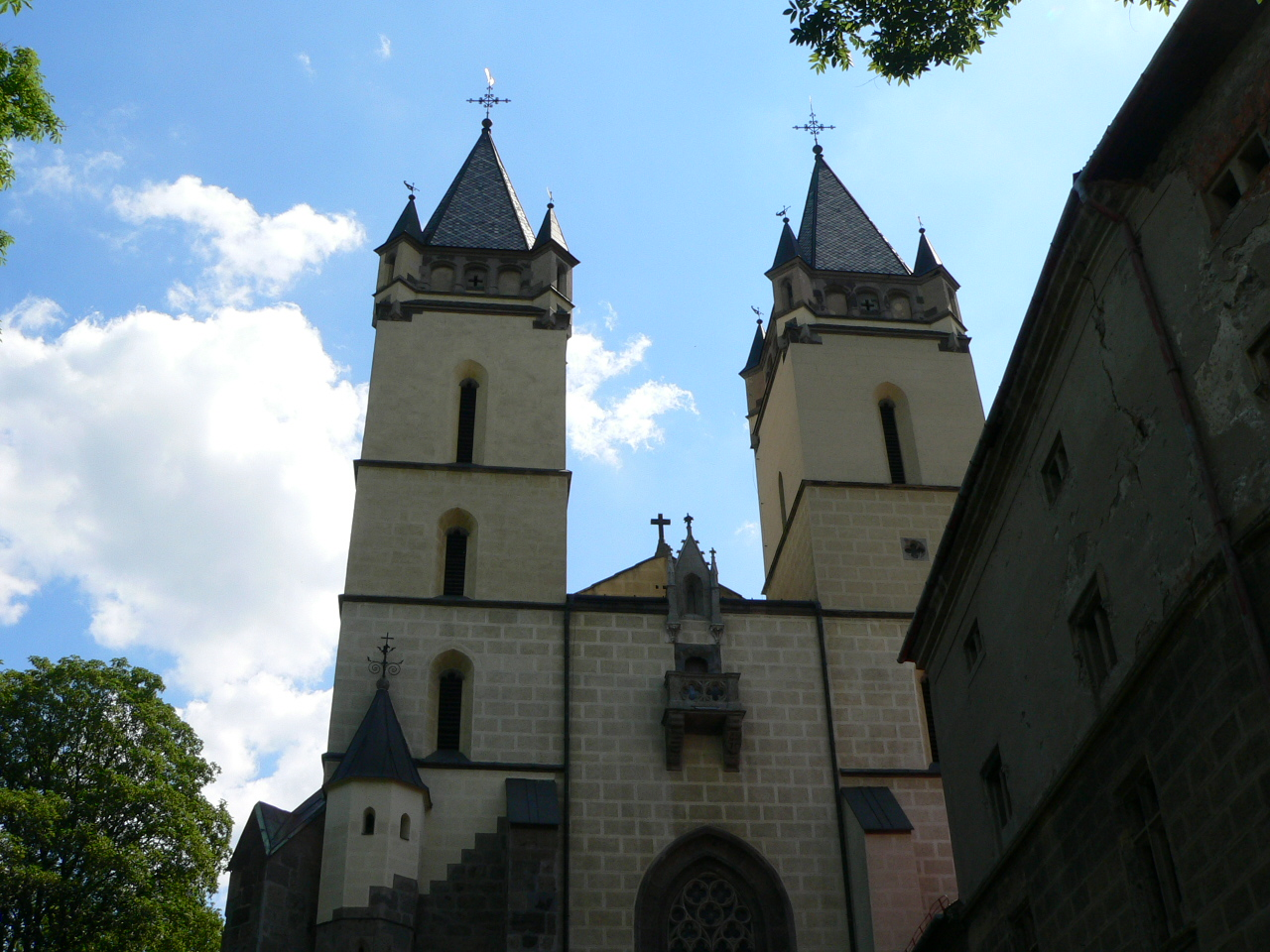 Church of former abbey in Hronský Beňadik Slovakia.